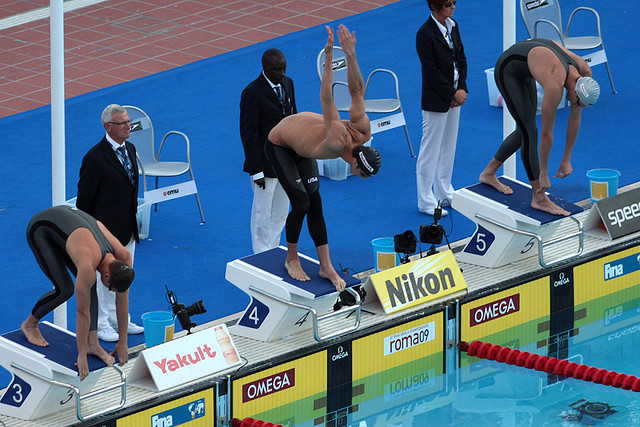 American swimmer Michael Phelps before the start of the 200m butterfly semi-final during 2009 FINA World Championships, Rome, Italy.